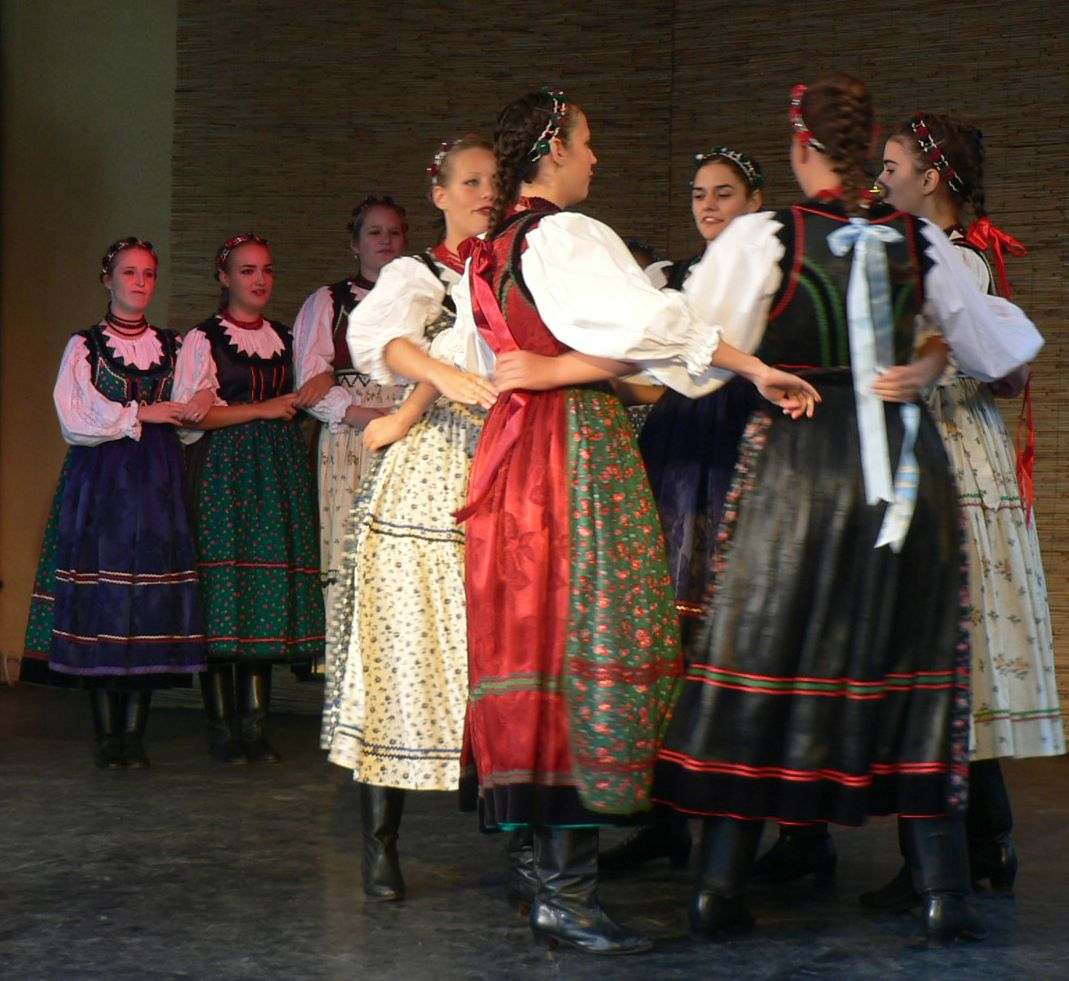 Néhányan a Cédrus táncoslányai közül (2008)